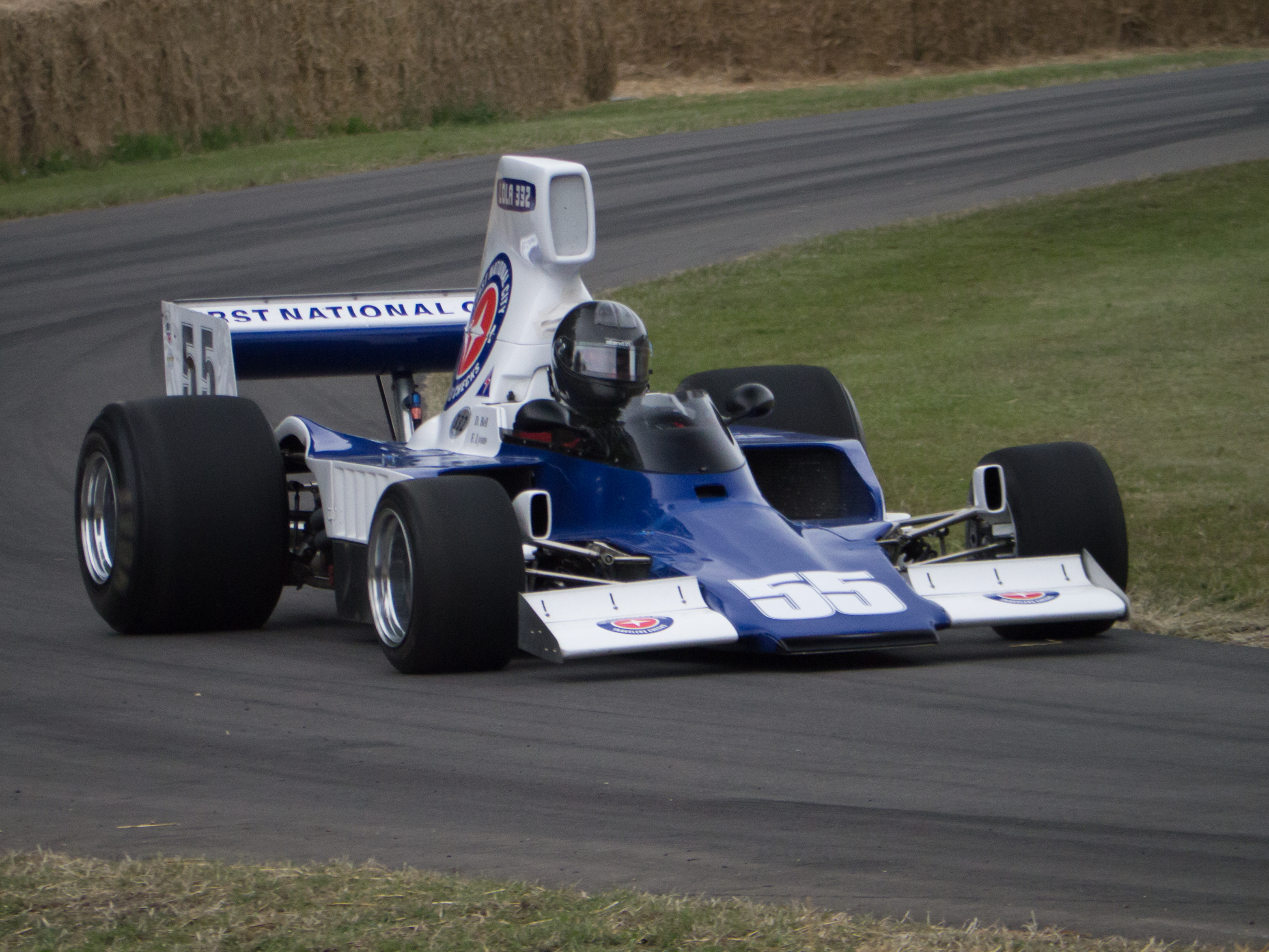 Fomula 5000 car driven by Derek Bell and David Hobbs